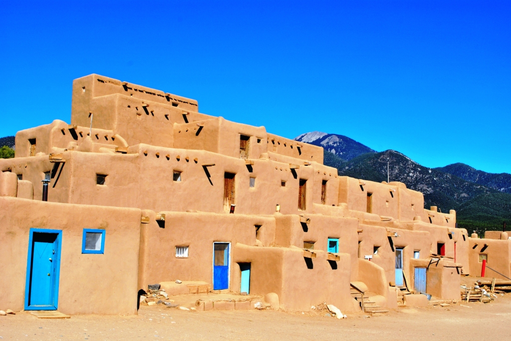 Taos Pueblo